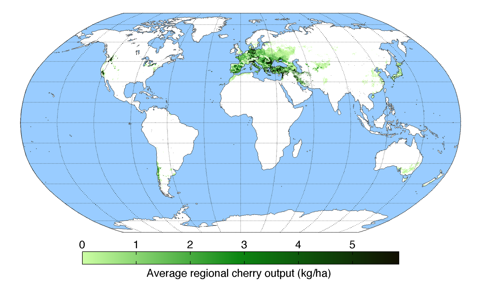 Map of cherry yield across the world (kg/ha) compiled by the University of Minnesota Institute on the Environment with data from: Monfreda, C., N. Ramankutty, and J.A. Foley. 2008. Farming the planet: 2. Geographic distribution of crop areas, yields, physiological types, and net primary production in the year 2000. Global Biogeochemical Cycles 22: GB1022